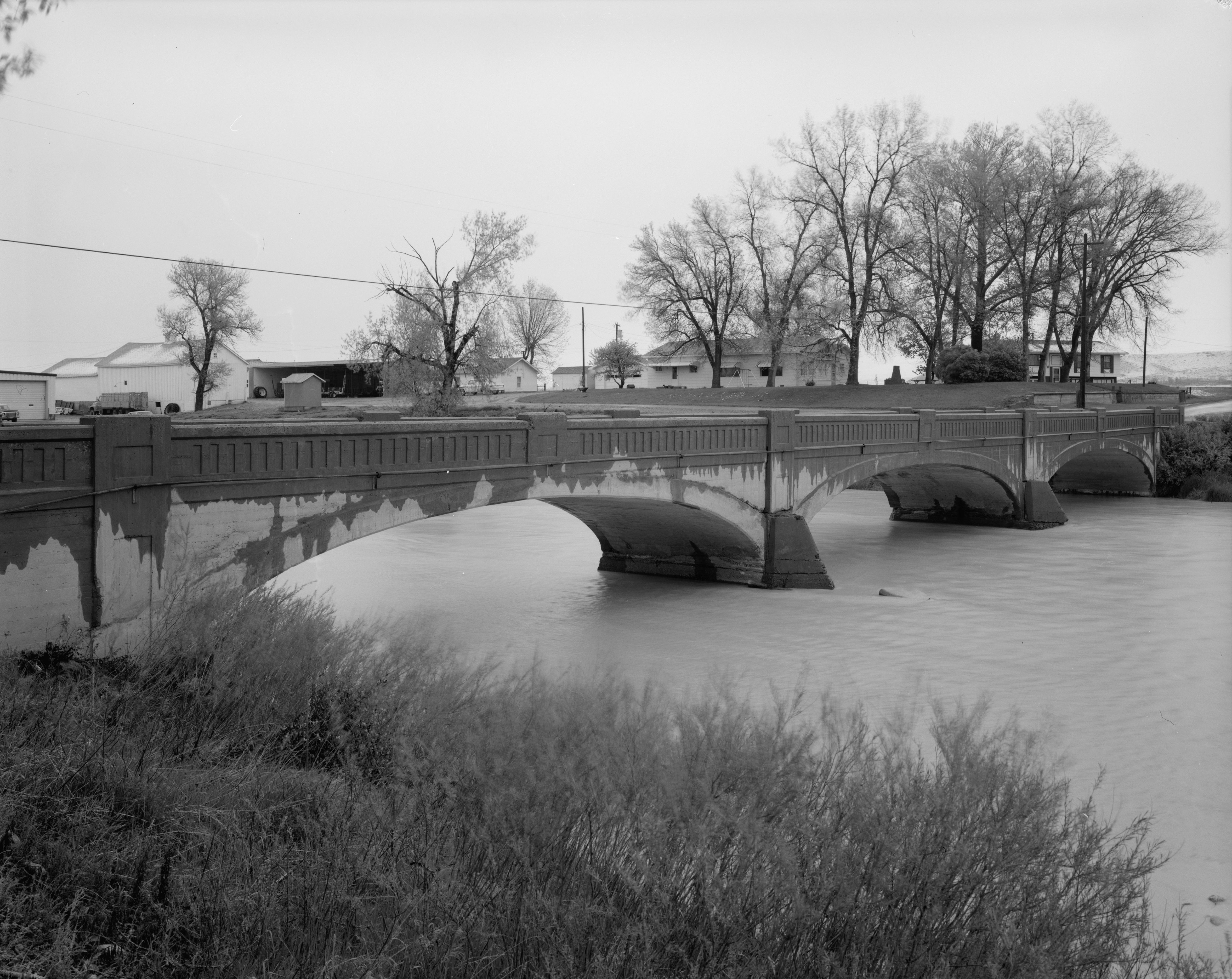 Southern side of the Fromberg Concrete Arch Bridge, which spans the Clarks Fork of the Yellowstone River near Fromberg in Carbon County, Montana, United States. Built in 1914, the bridge is listed on the National Register of Historic Places.